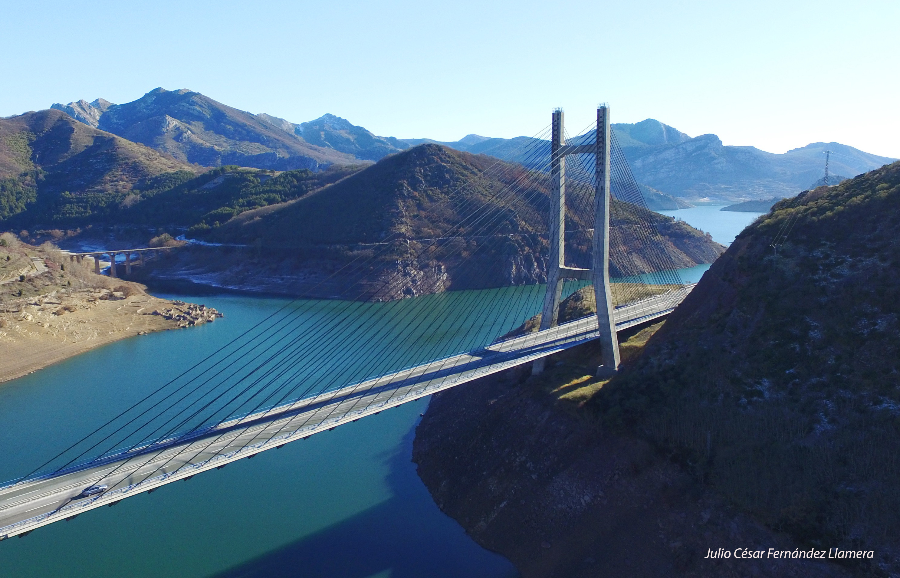 Carlos Fernández Casado Bridge Birds eye view